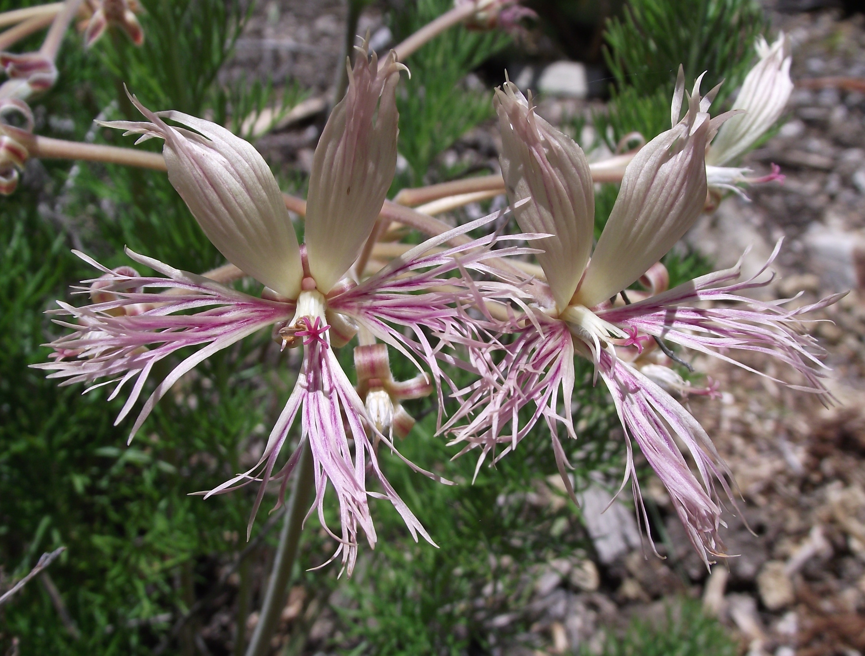 Pelargonium bowkeri in the UC Botanical Garden, Berkeley, California, USA. Identified by sign.